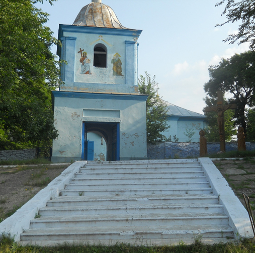 Biserica Pohoarna